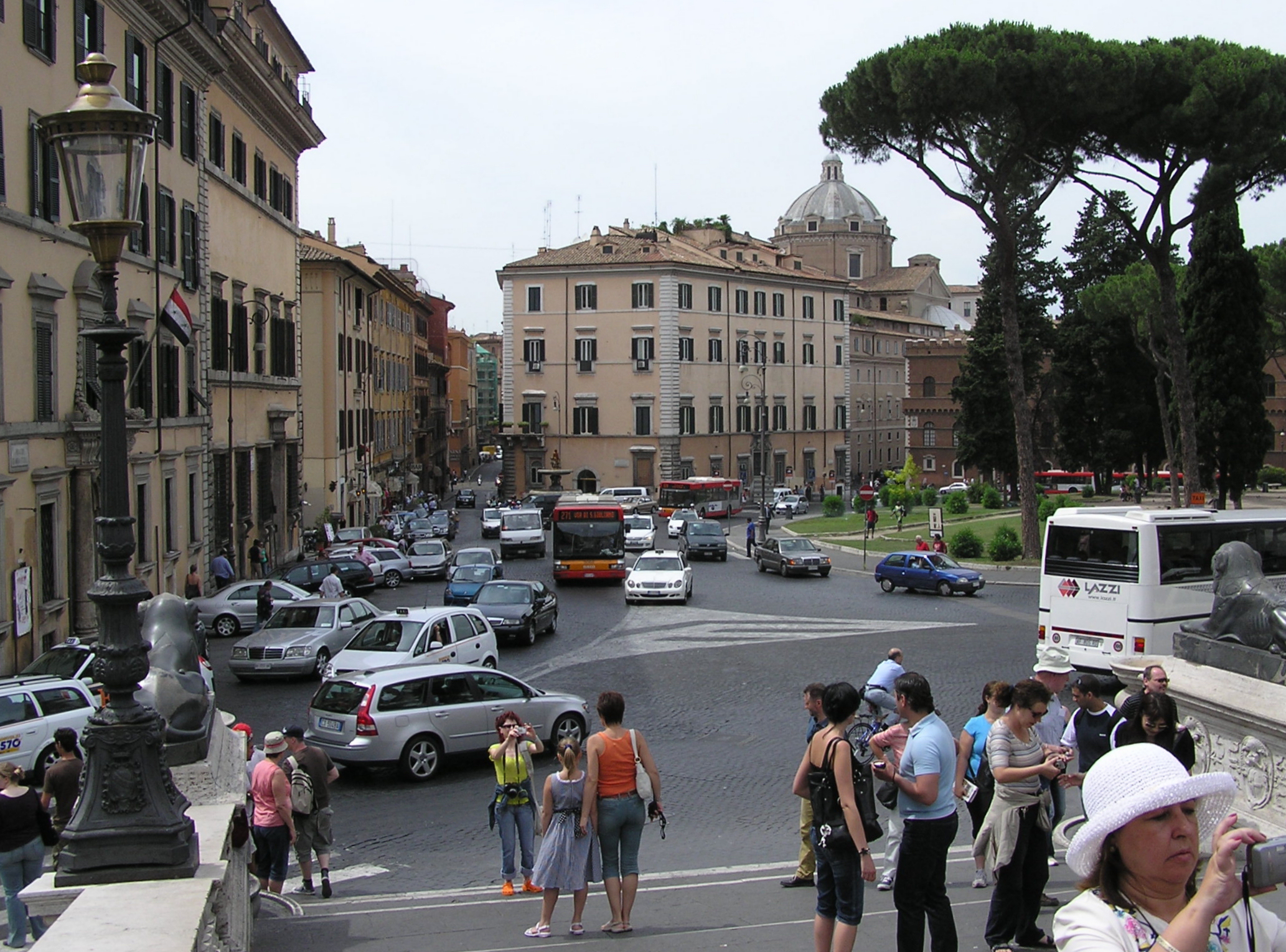 A view of a typical street in central Rome. The elements that make it typical are – traffic, tourists, painted buildings, Umbrella pines, a Piazza (Piazza Araceolio, to the right), a fountain (just seen in the background) and a domed church.